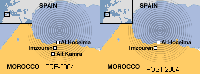 2004 EARTHQUAKE IN MOROCCO